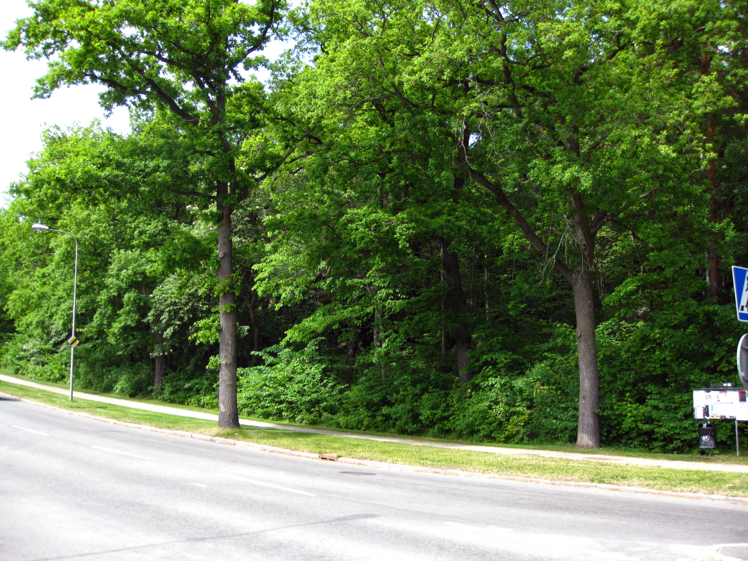 The park Höglandsparken, Höglandet, Bromma, western Stockholm, Sweden.